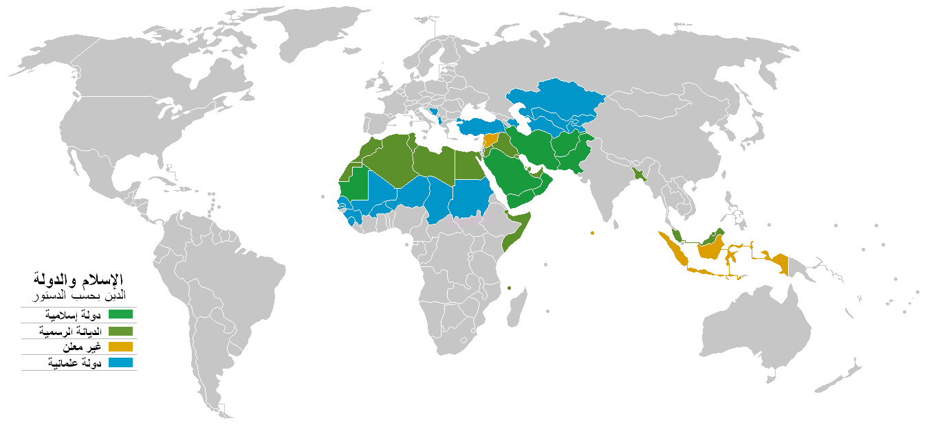 Muslim majority countries classified by constitutional role for religion; either declared self as Islamic states, or declared Islam as the state religion, or declared themselves as a secular state, and no constitutional declaration.